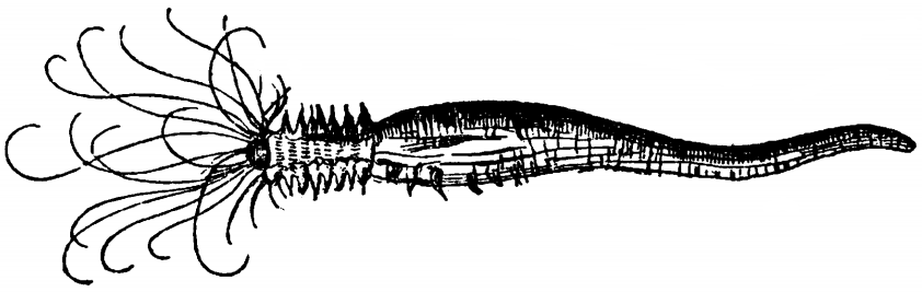 A sketch of a terebella, from the book Sea and River-side Rambles in Victoria""